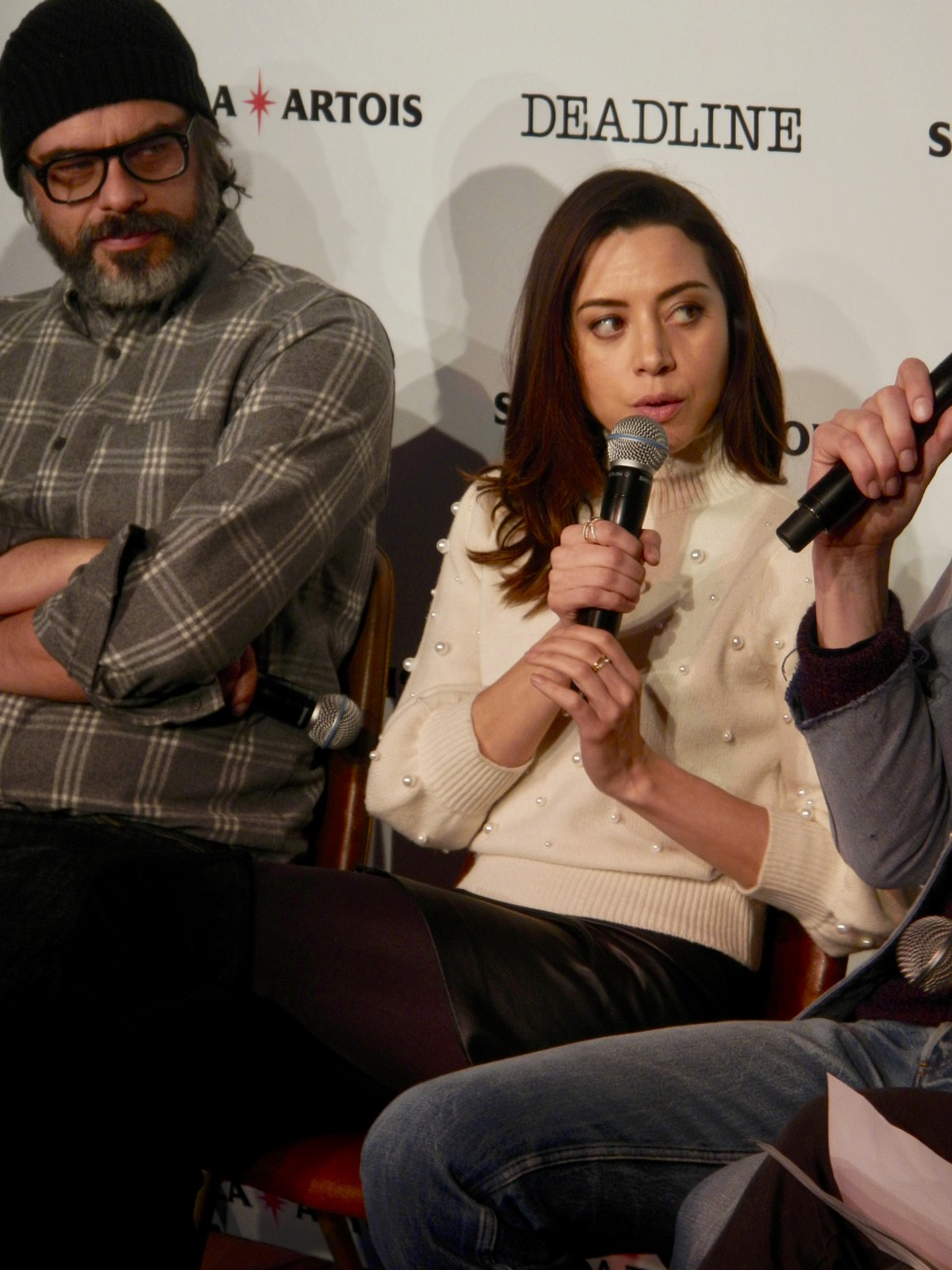 An Evening with Beverly Luff Linn, Sundance 2018, Park City UT